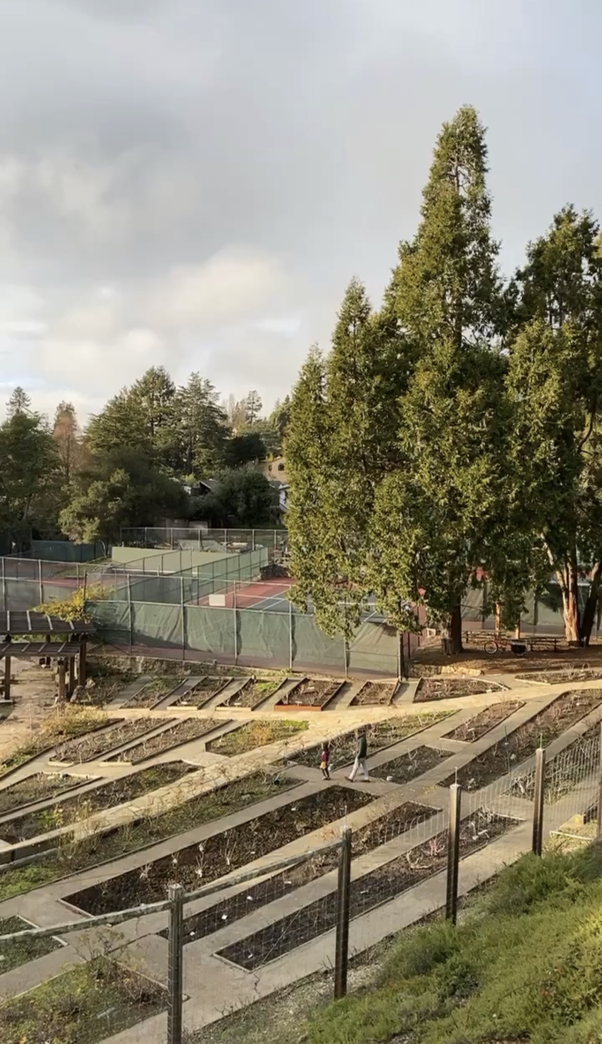 This is a photo of the Berkeley Rose Garden taken from the entrance.